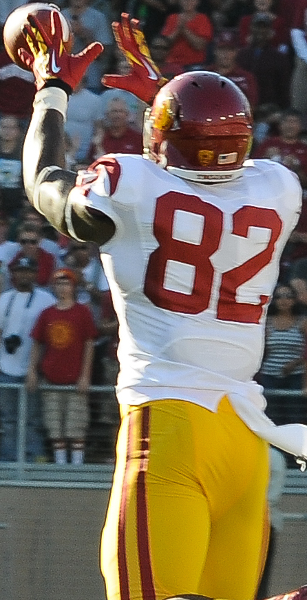 Photos from USC's 2012 loss to Stanford (Jerry Ting/Neon Tommy)